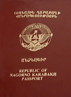 Cover of a non-biometric passport issued by the Nagorno-Karabakh Republic, a de facto sovereign state in the South Caucasus recognized by most countries as a part of Azerbaijan